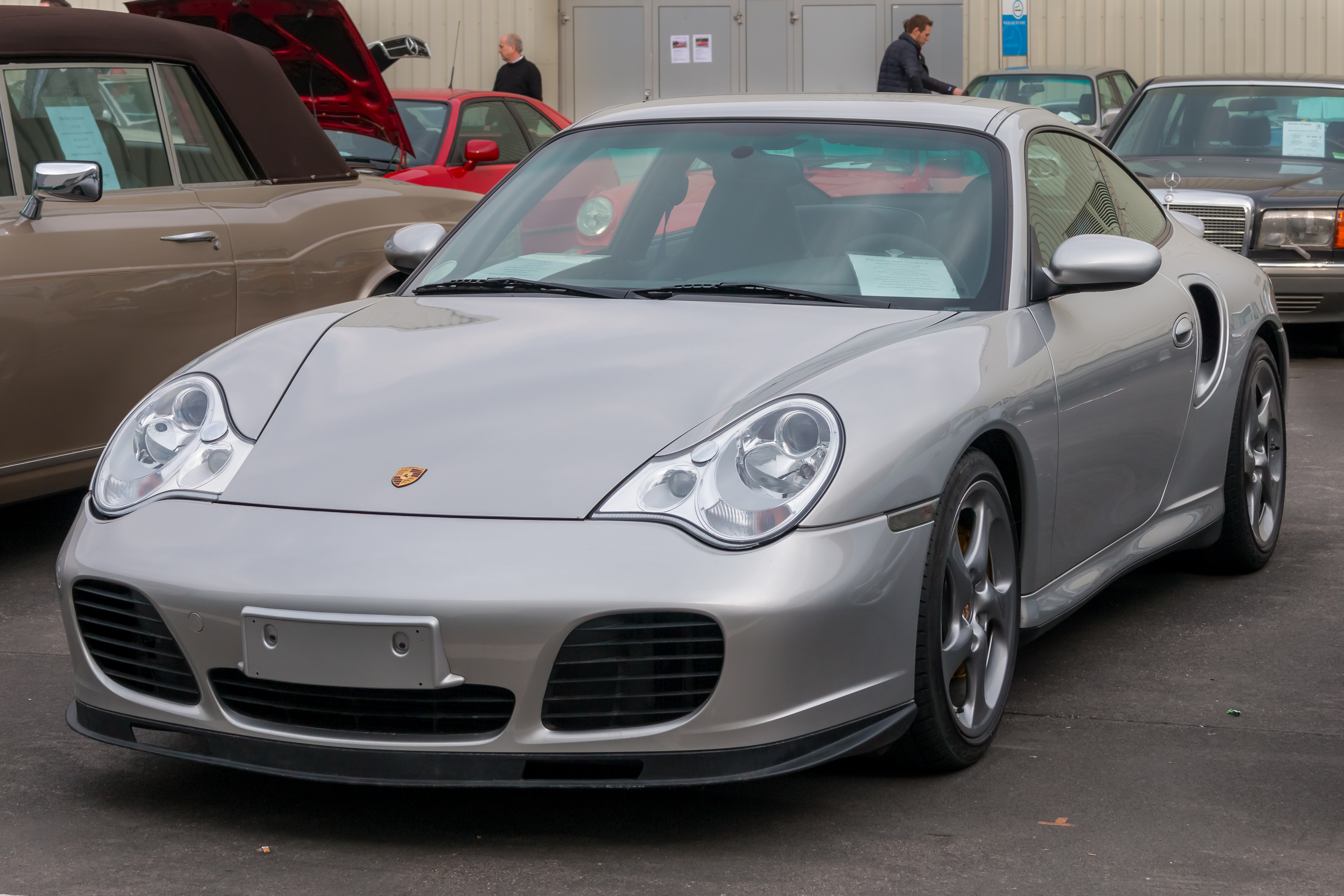 Techno Classica 2018, Essen